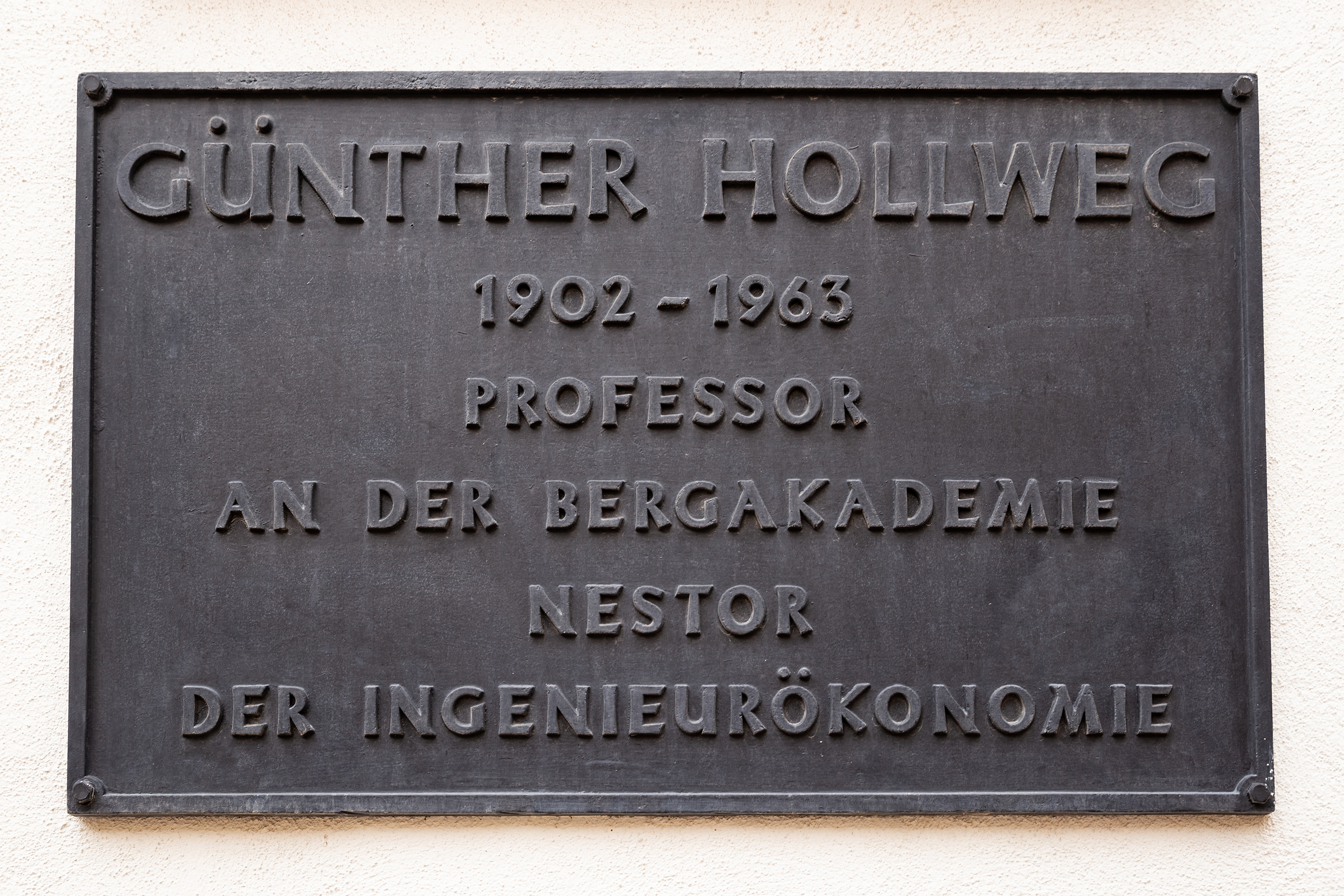 Günther Hollweg, memorial plaque in Freiberg, Saxony